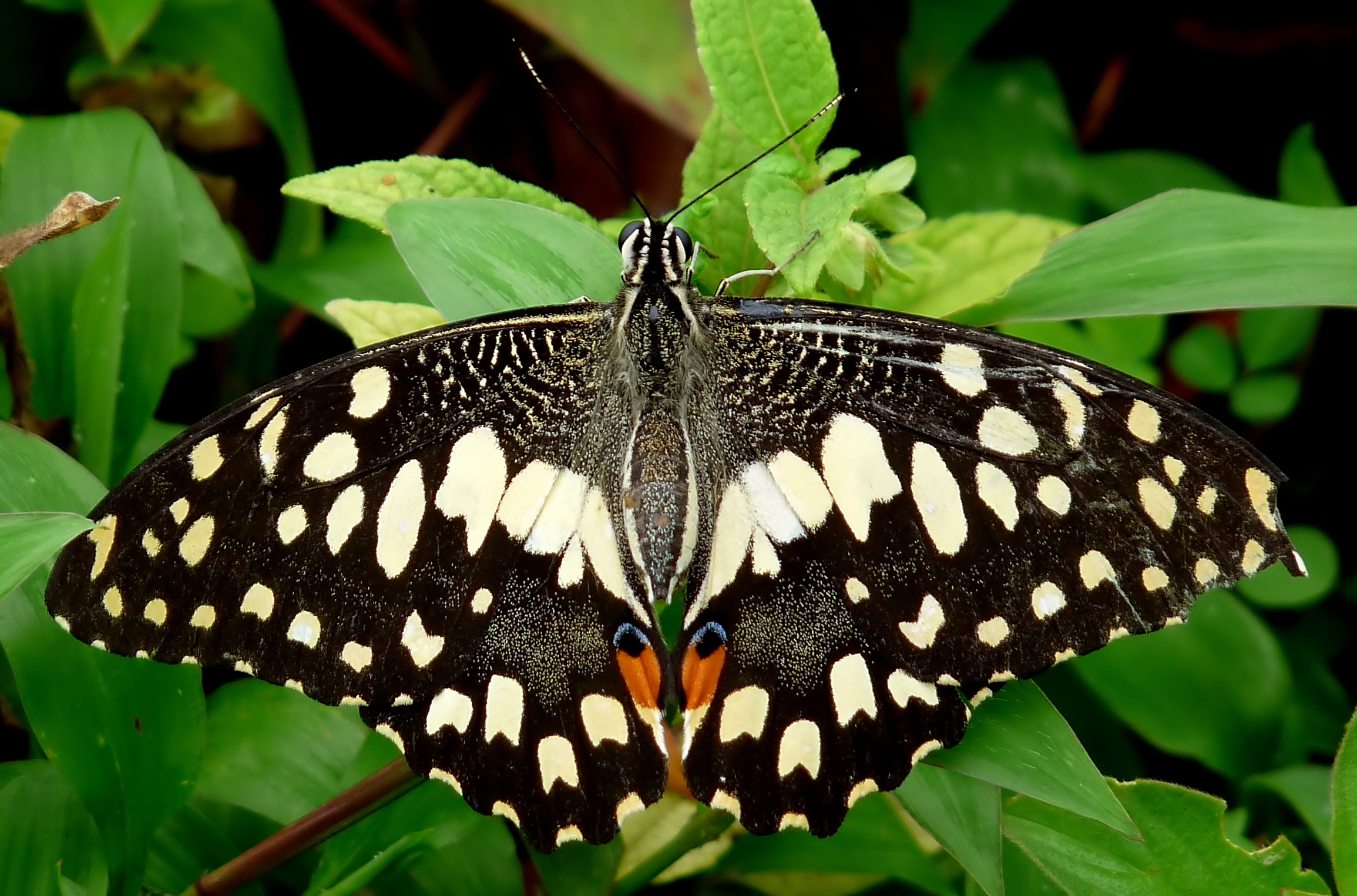 Papilio demoleus, is a common and widespread swallowtail butterfly. Common names include Common Lime Butterfly, Lemon Butterfly, Lime Swallowtail, Small Citrus Butterfly, Chequered Swallowtail, Dingy Swallowtail, and Citrus Swallowtail. It gets its common names from its host plants, which are usually citrus species such as the cultivated lime. Unlike most swallowtail butterflies, it does not have a prominent tail. The butterfly is a pest and invasive species from the Old World which has spread to the Caribbean and Central America. "In space 1b on the hindwing, there is a red spot in both sexes. In the male, this spot is capped with a narrow blue lunule with a very narrow intervening black gap. In contrast, the red spot and the blue lunule in the female have a rather large black spot between them." So this is a female. Taken at Kadavoor, Kerala, India.